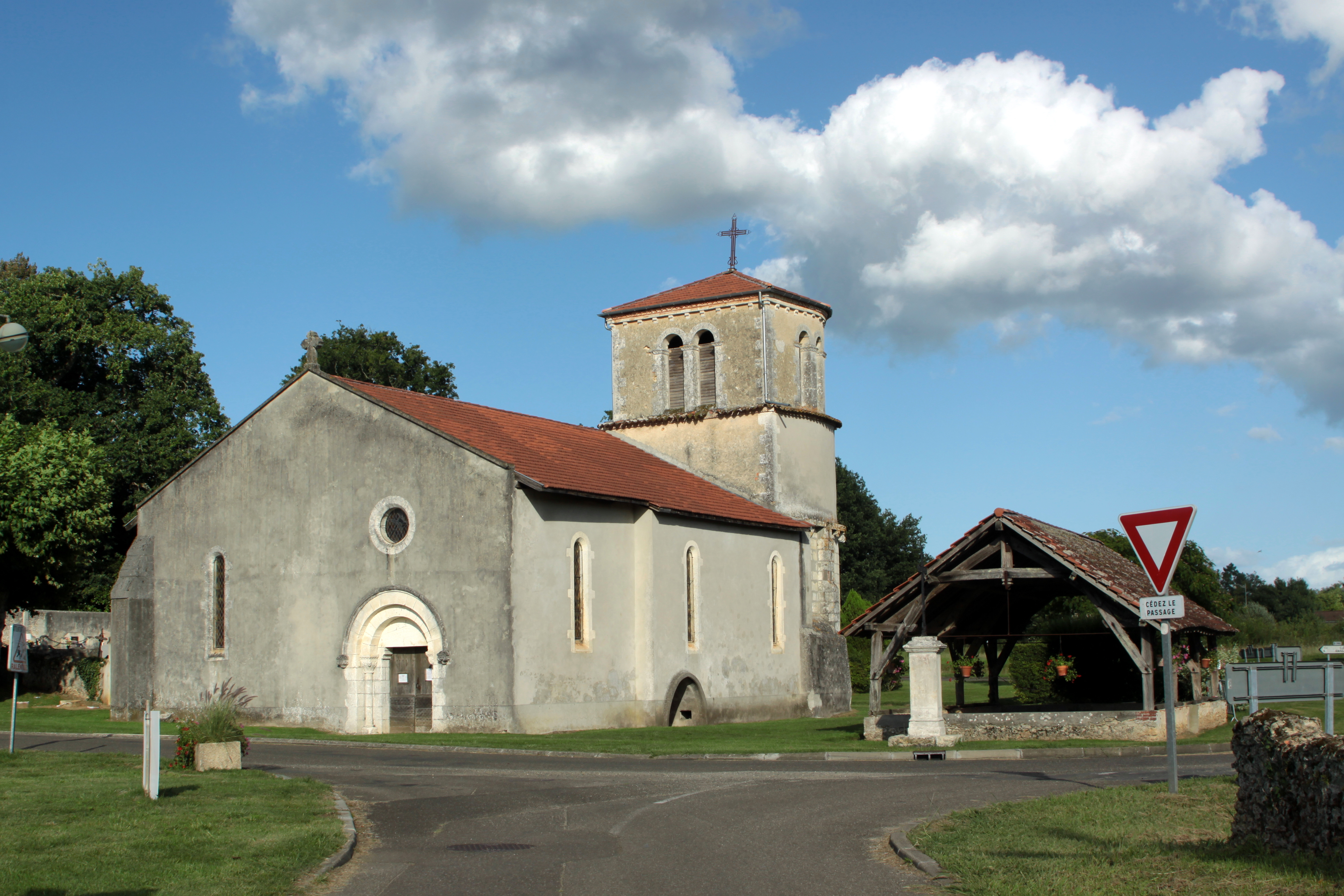 Lucbardez-et-Bargues Church